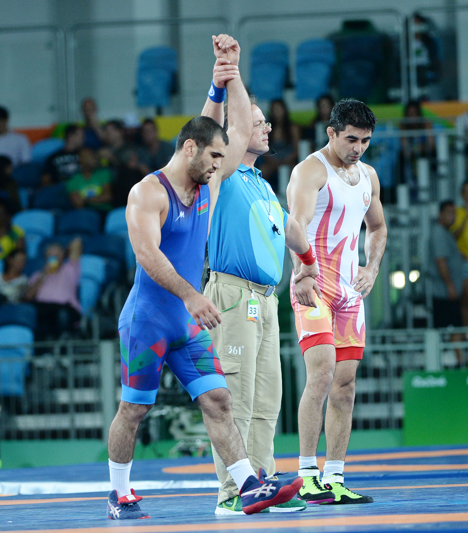 Wrestling at the 2016 Summer Olympics, Hasanov vs Abdurakhmonov